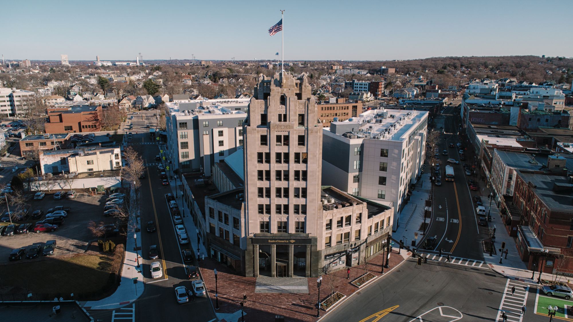 A drone shot of the Granite Trust Building in Quincy, MA. It shows the recently constructed apartments located behind it along with part of the new traffic pattern in the street in front.